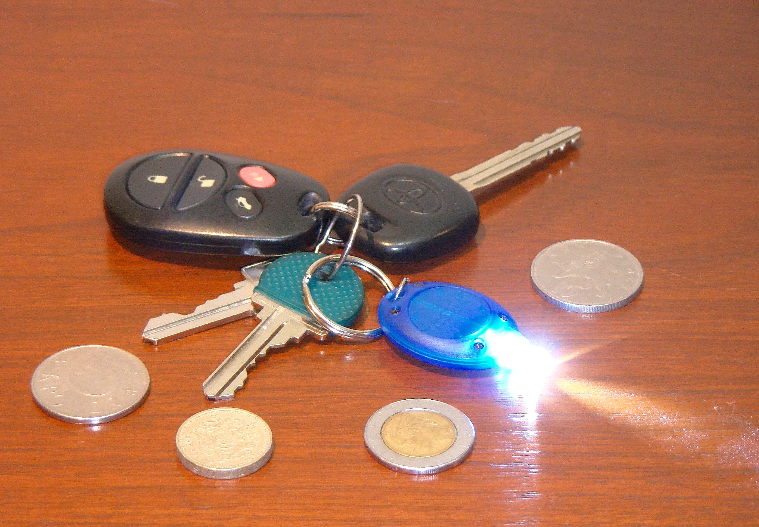 A key chain with a miniature LED flashlight powered by lithium coin batteries. Various obsolete coins for scale. Key chain includes a fob for remote unlock of car doors.